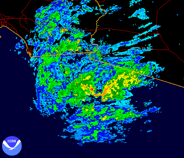 Hurricane Nora over northern Mexico as seen by NWS radar in Yuma, Arizona.